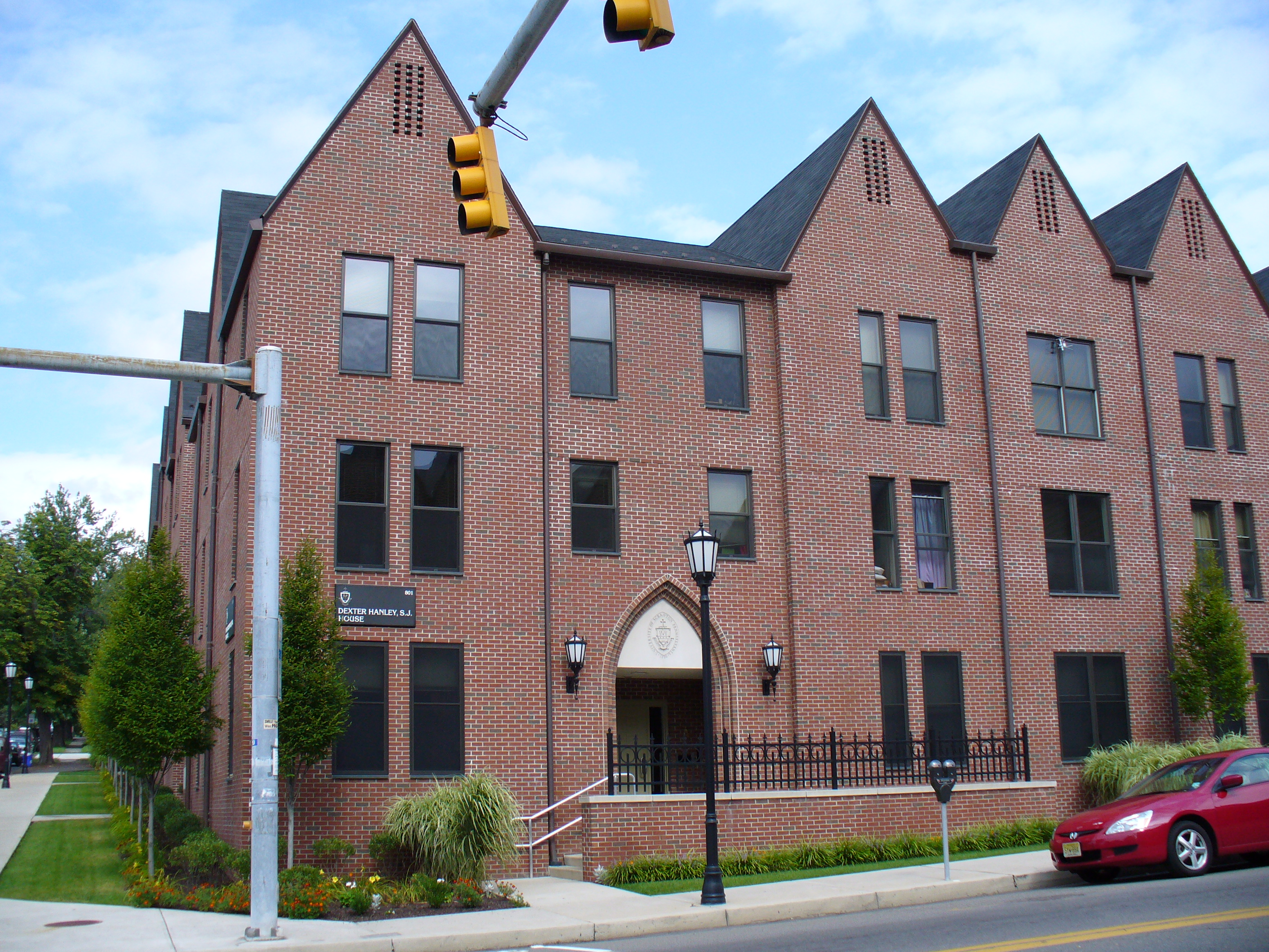 Madison Square Apartments, University of Scranton, at Scranton, Pennsylvania, United States.